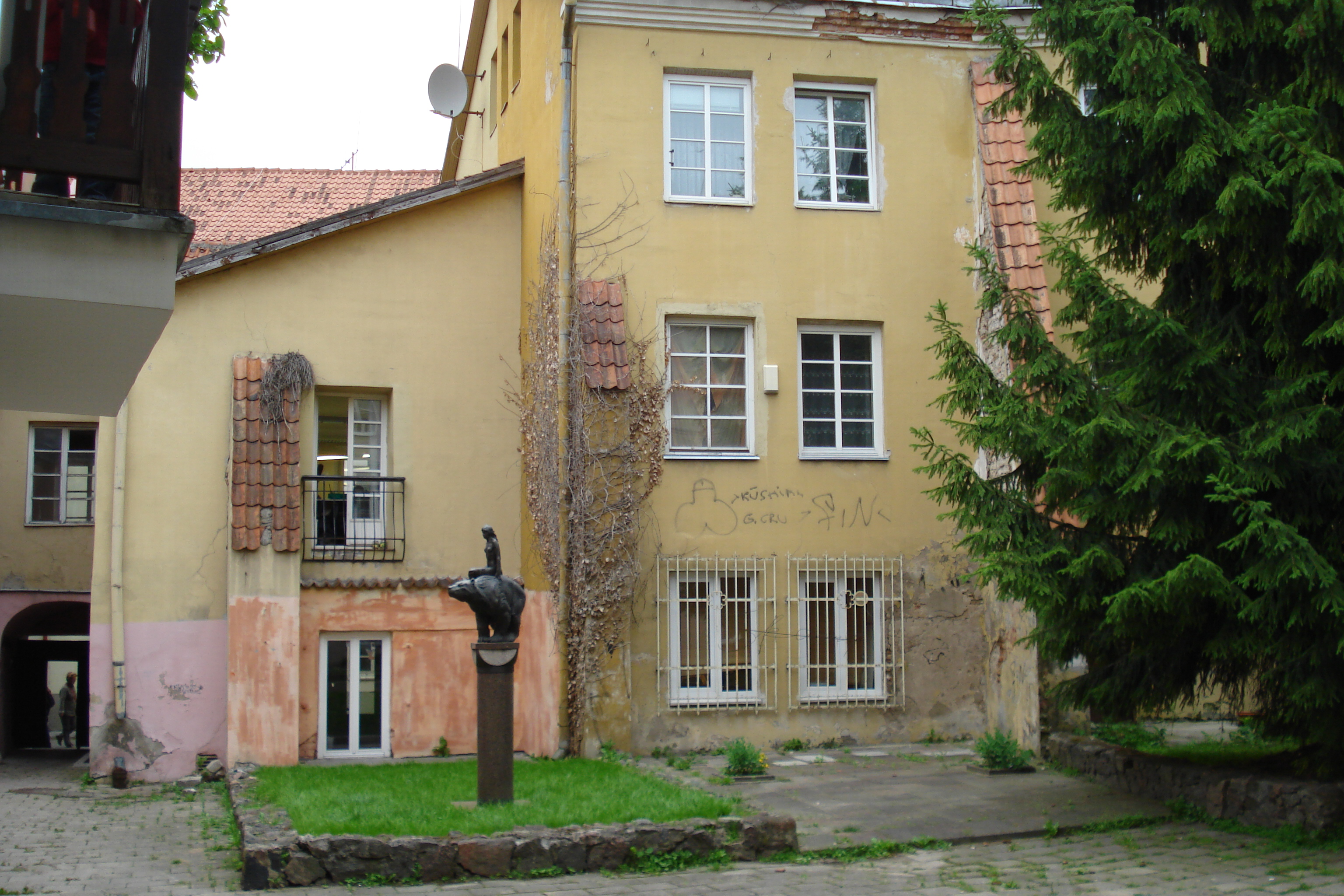 Courtyard in Stikliu street 6 (Vilnius)